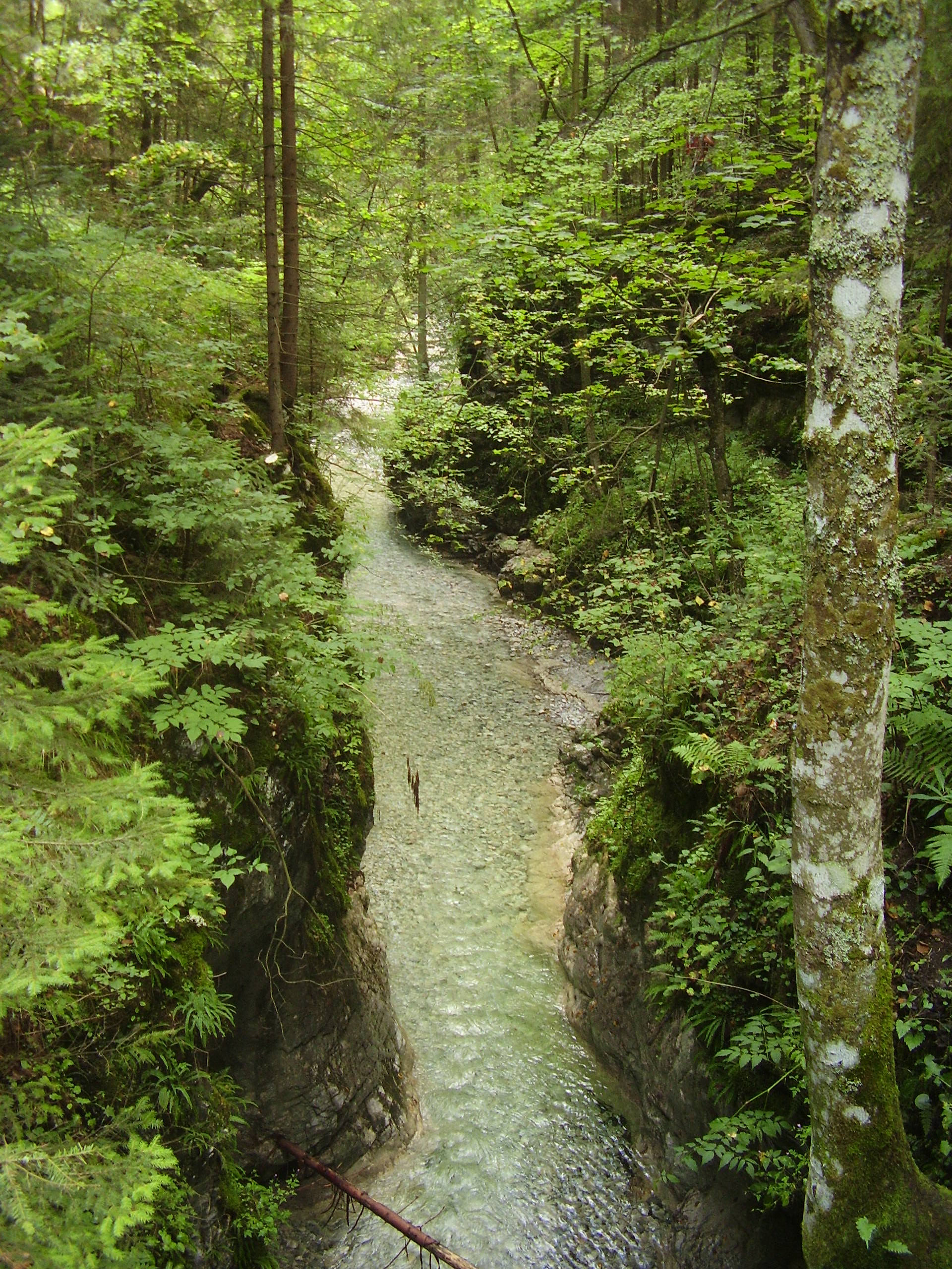 Biely potok near mouth with Hornád